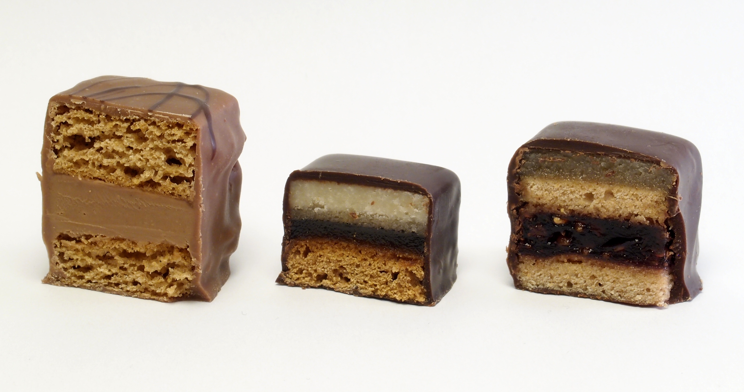 Three types of Dominostein, a German gingerbread confection; from left to right and in each case from bottom to top: gingerbread, nougat cream filling, covered with milk chocolate; gingerbread, jelly, marzipan, covered with dark chocolate; gingerbread, redcurrant jam, gingerbread, marzipan, covered with dark chocolate. The middle one is an industrial product by Niederegger, the others are from a Hamburg patisserie.